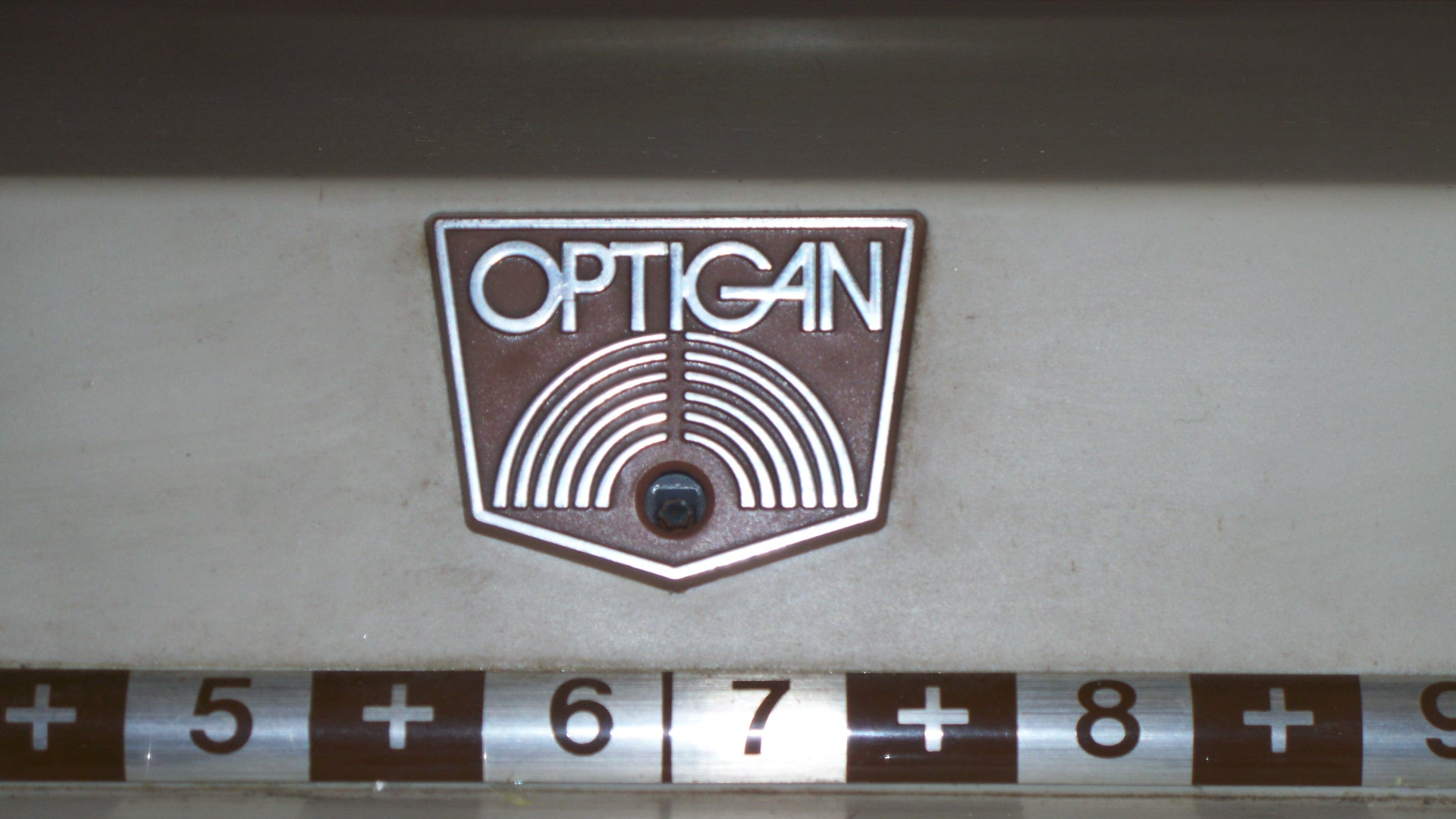 Metronome of a ca. 1971 Optigan Music Maker optical organ, model 35002. Owned and photographed by user PMDrive1061.